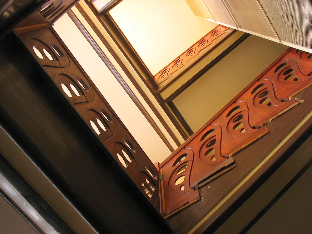 Henry van de Velde's Art Nouveau interior design in Trzebiechów (Poland) Sanatory. Author: Mohylek